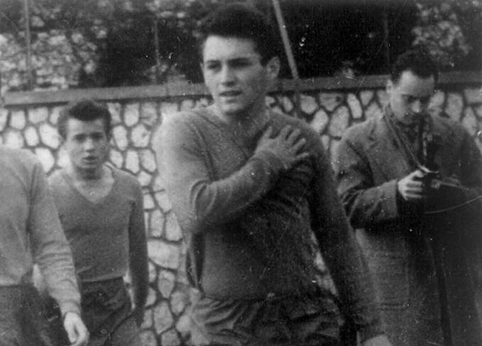 Zoltán Ivansuc in the 60s